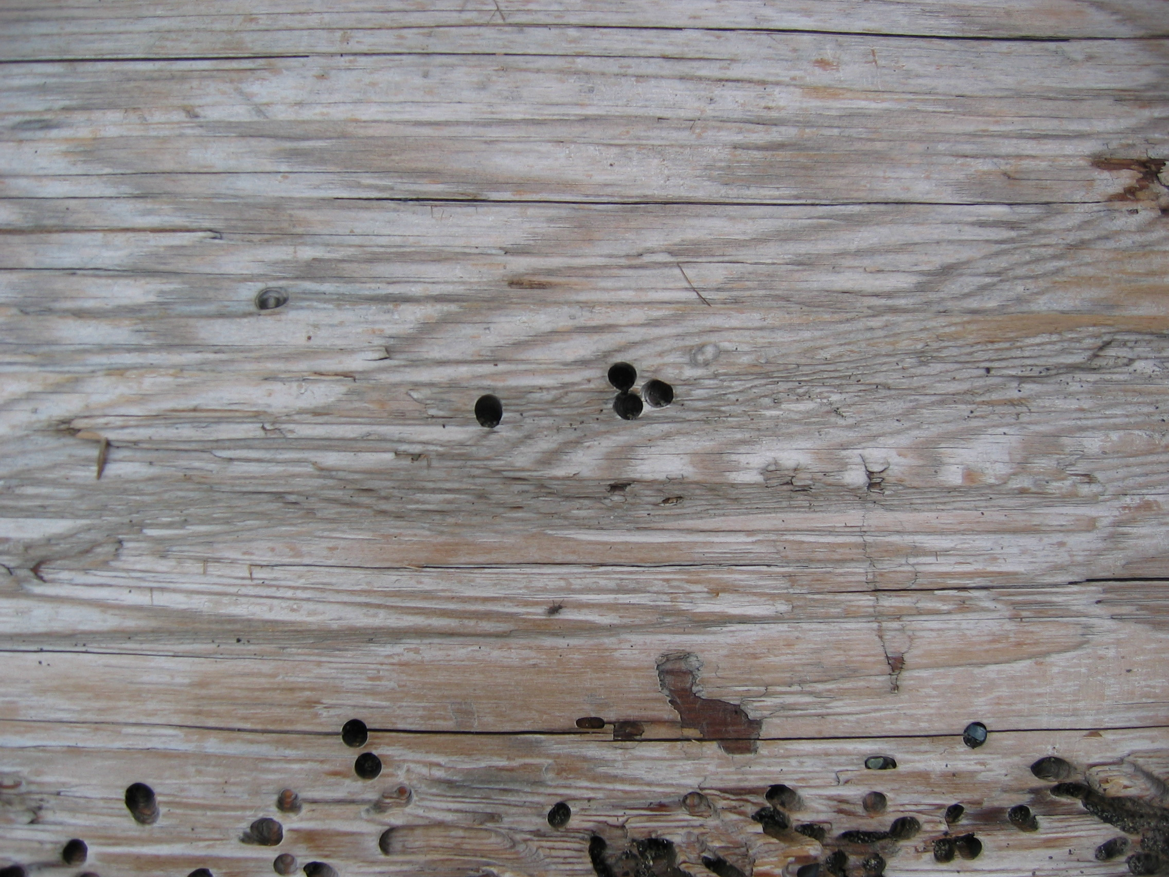 knotty wood: Worm eaten log from the beach on Cape Roger Curtis, Bowen Island.